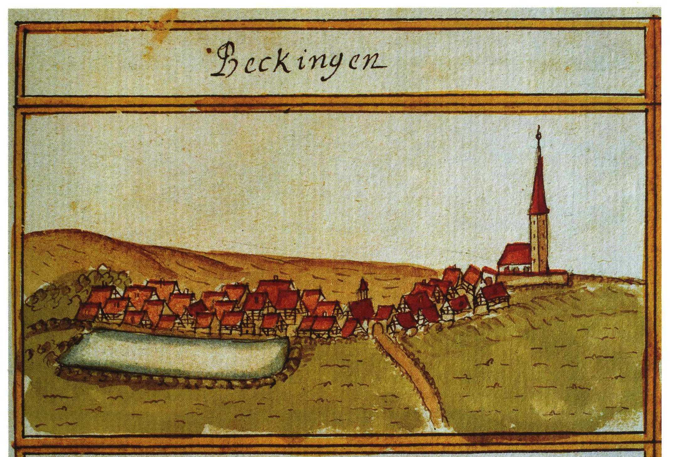 692_Böckingen_im_Forstlagerbuch_des_Stromberger_Forst_von_Andreas_Kieser